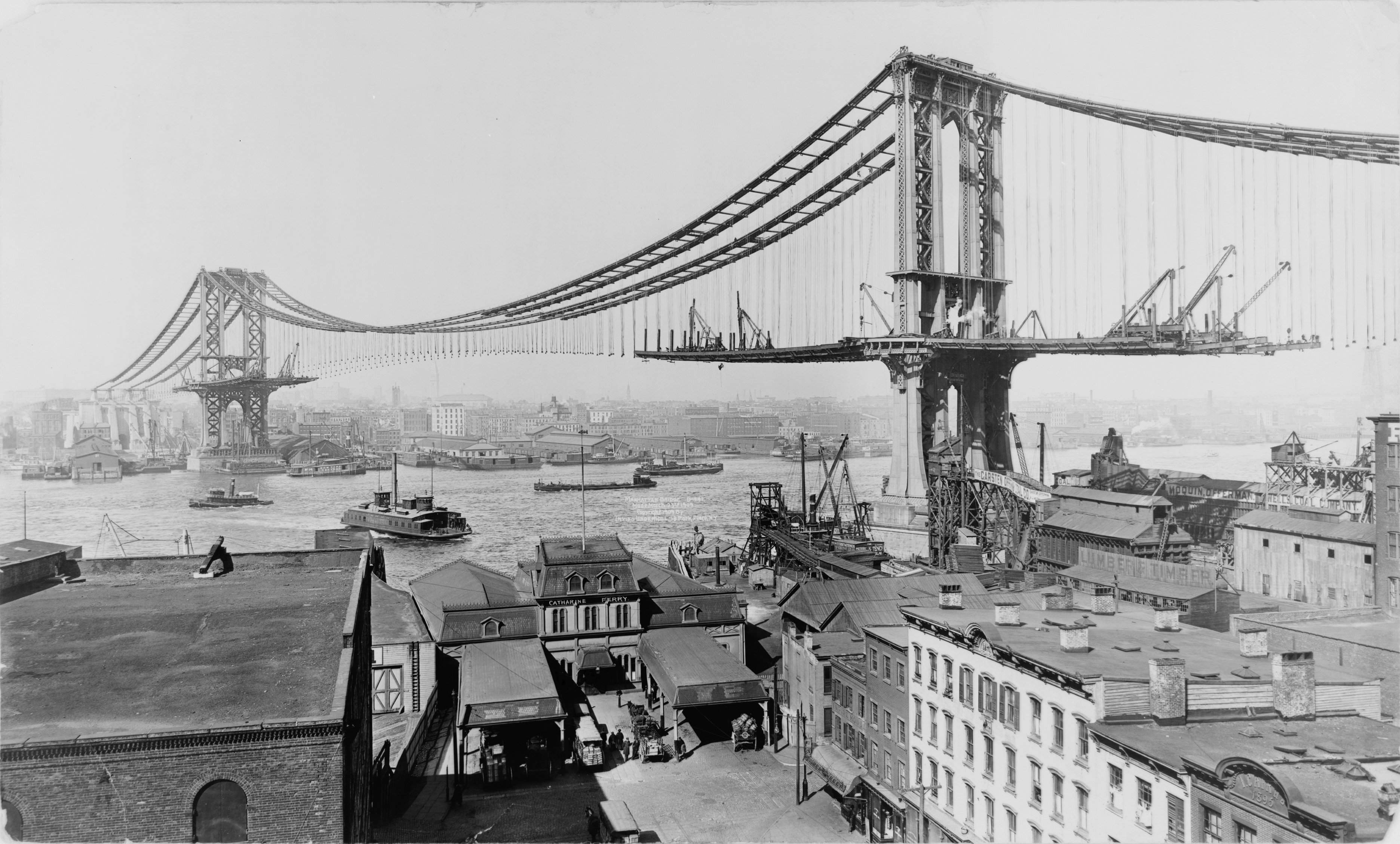 Manhattan Bridge, made March 23rd, 1909. Marine terminal at Main and Plymouth Streets in foreground; bridge under construction in background. Original image cropped slightly.